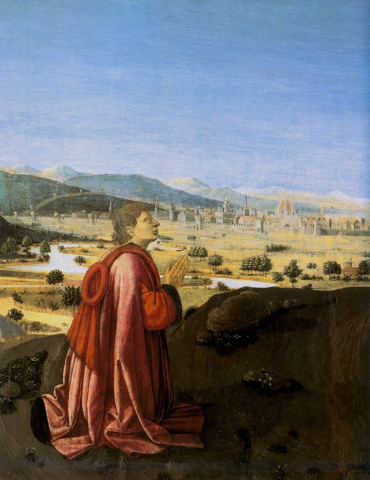 Francesco Botticini. Assumption of the Virgin. Detail - Matteo Palmieri and the city of Florence. 1475-76 London NG